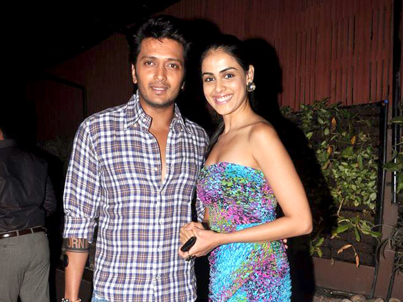 Riteish Deshmukh, Genelia Dsouza at Success bash of 'The Dirty Picture'